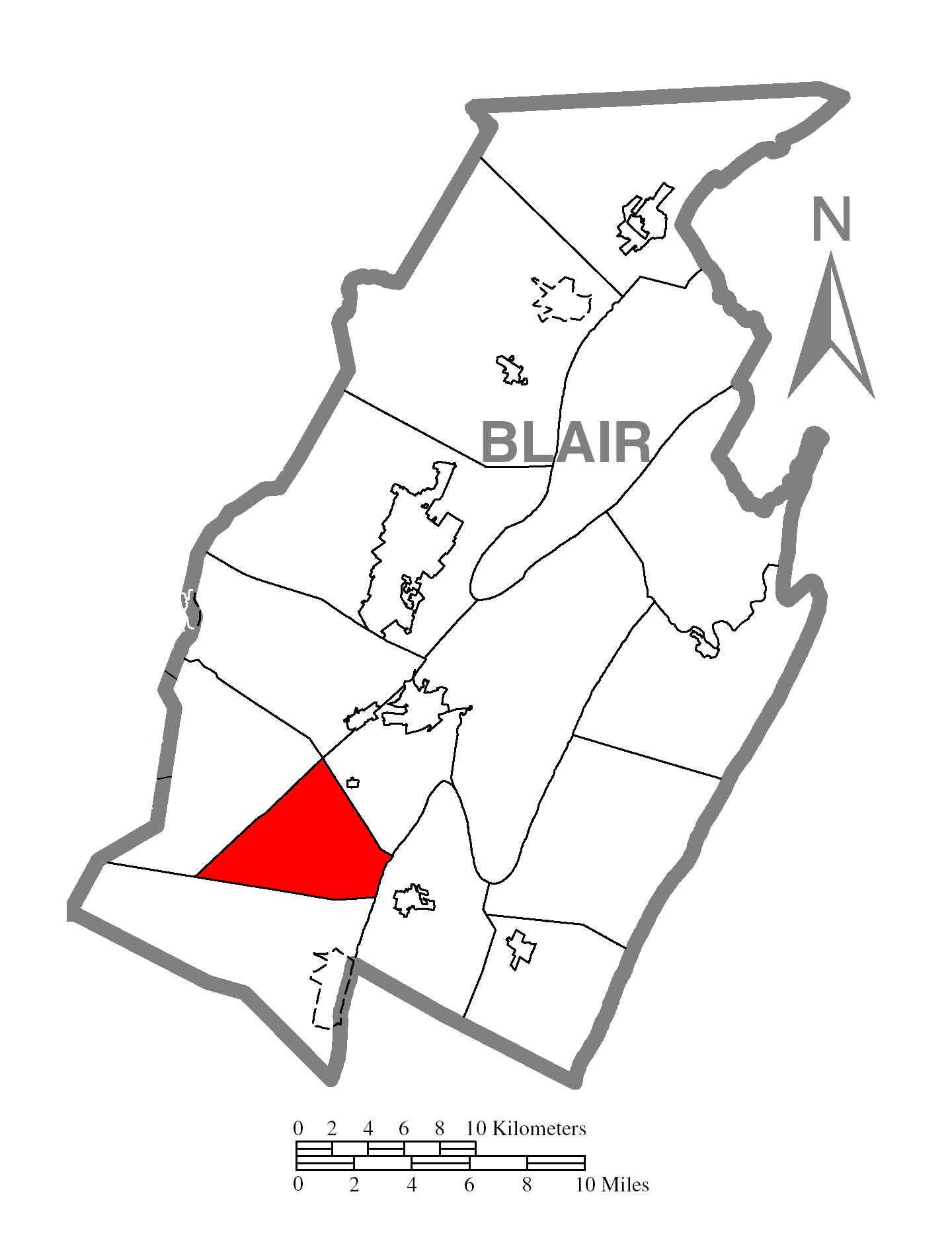 A map of Blair County showing Freedom Township, Pennsylvania (alternate) highlighted on the map.